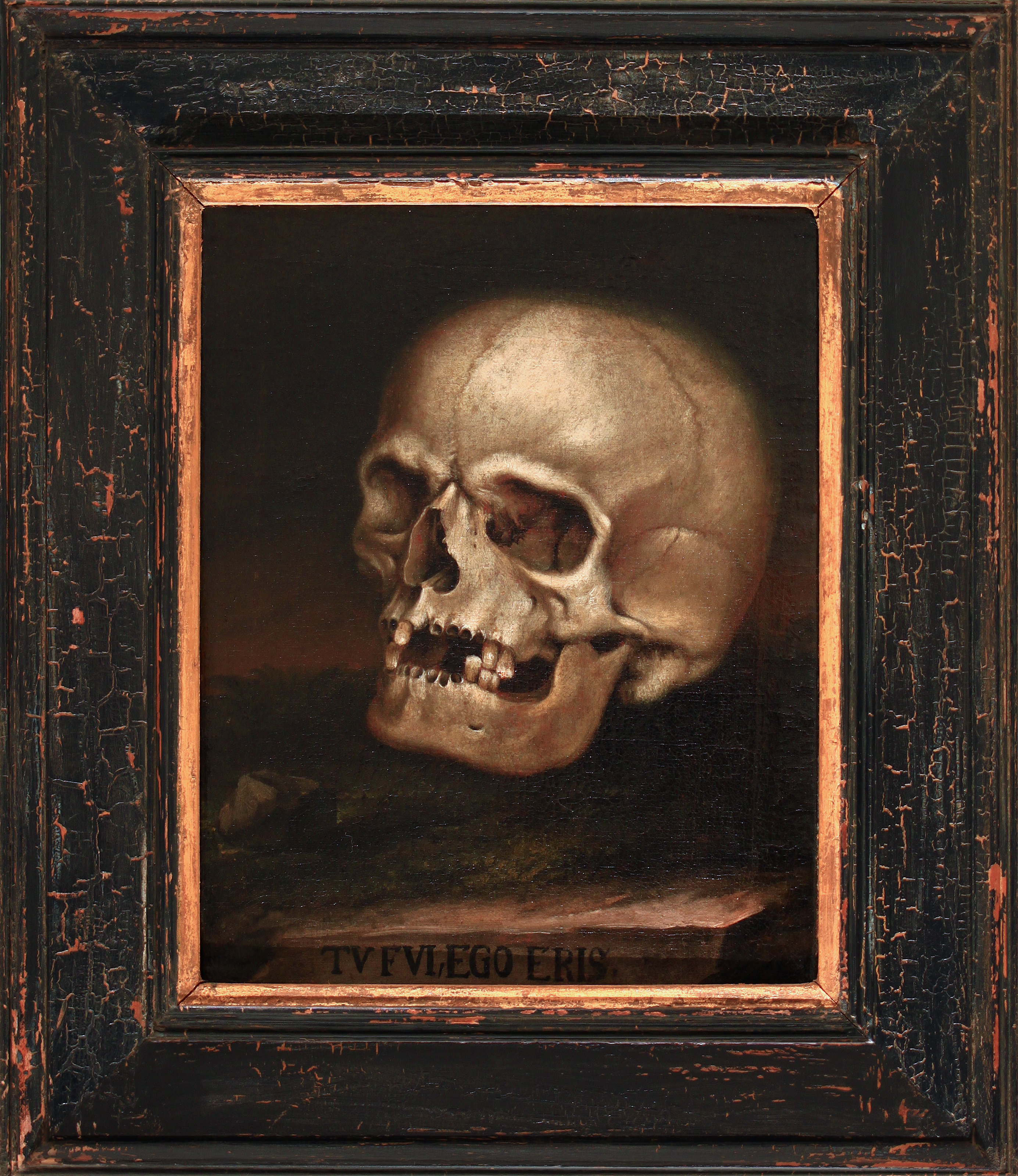 Painting of vanitas [1] by Johann Georg Dieffenbrunner (1718 - 1785) [2], born in Mittenwald, Bavaria, Germany. Tu fui, ego eris (As you are, I was; as I am, so you shall also be) remembers the human transience. Geigenbaumuseum Mittenwald.